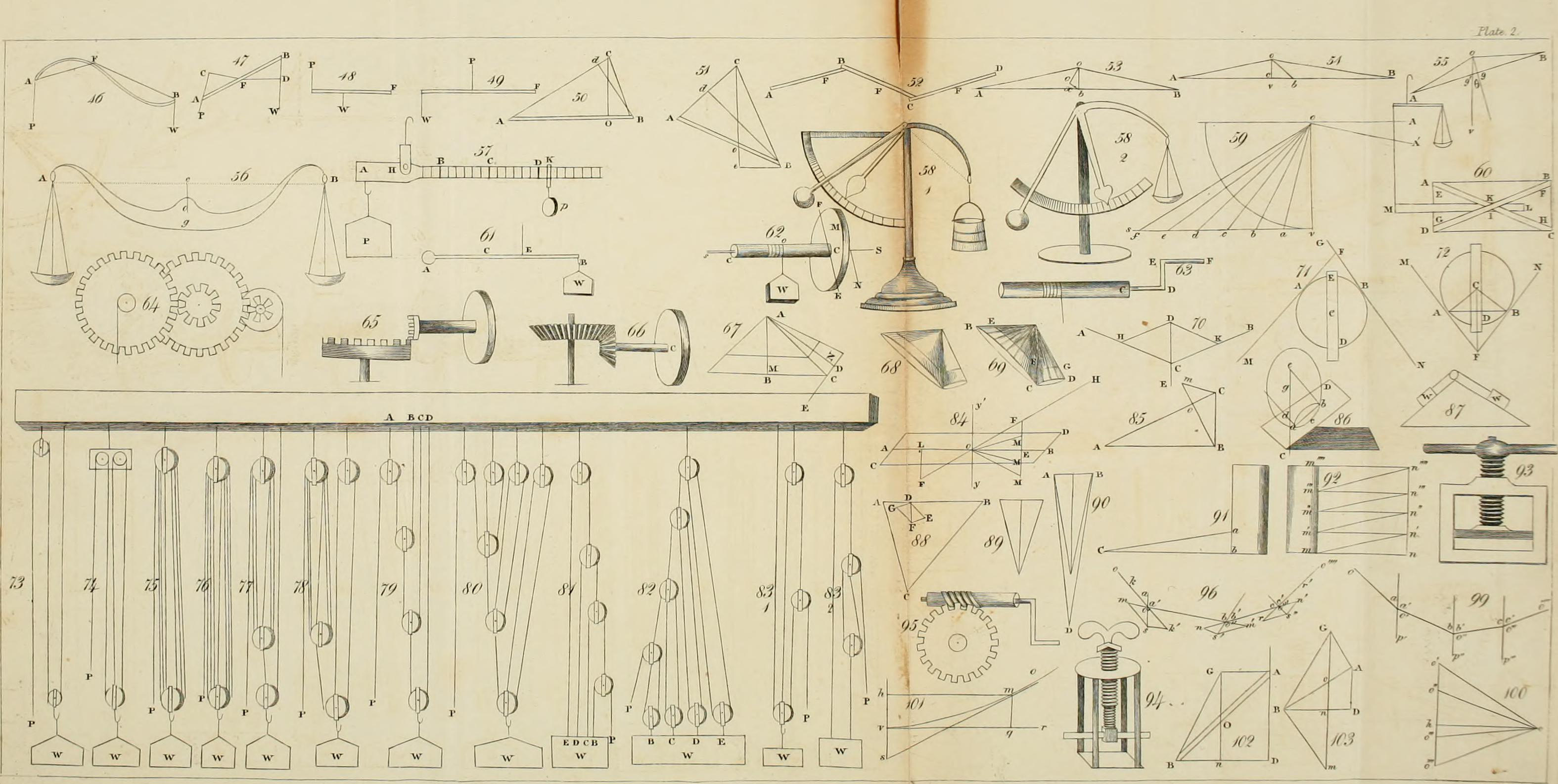 Title: An elementary treatise of mechanical philosophy, wirtten for the use of the undergraduate students of the University of Dublin Year: 1835 (1830s) Authors: Lloyd, Bartholomew, 1772-1837 Subjects: Statics Dynamics Publisher: Dublin, Milliken and son Text Appearing Before Image: ' Text Appearing After Image: '